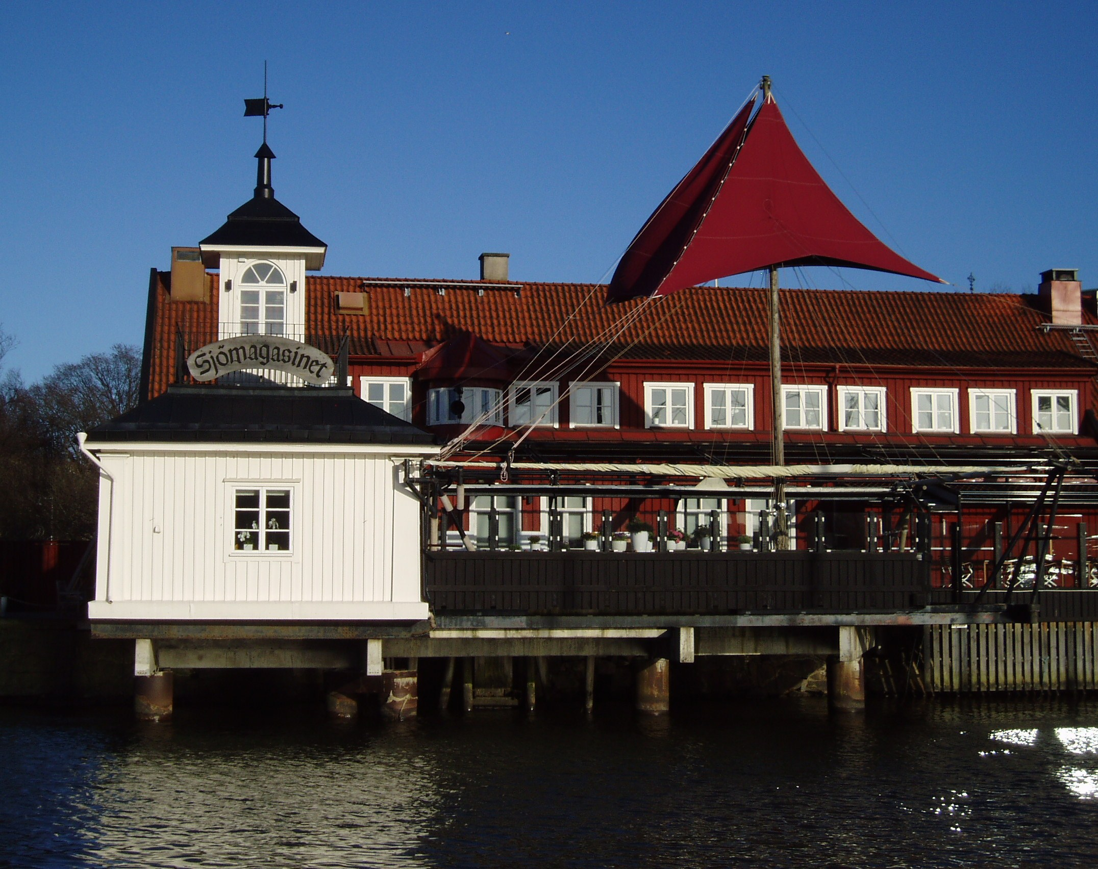 The backside of restaurant Sjömagasinet in Gothenburg